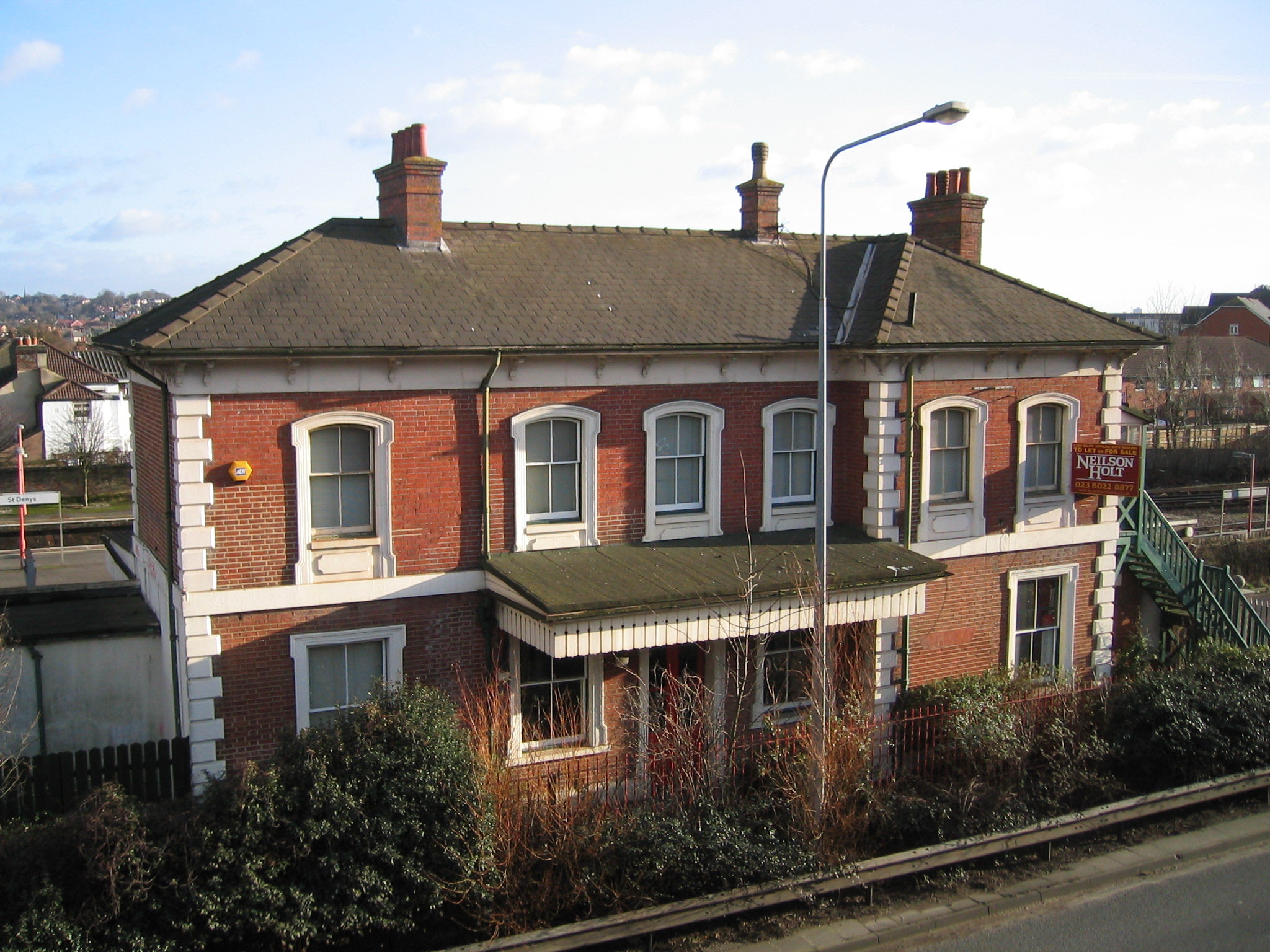 St Denys railway station building, Southampton, UK. Now in private ownership. Photo taken by me 2006-01-21.